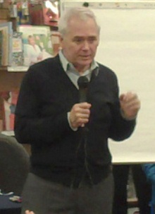 Marc Brown hides his children's names in his illustrations.